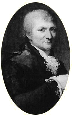 Swedish botanologist Adam Afzelius